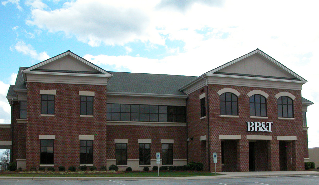 BB&T bank in Lexington, NC. This is typical of most of their branch offices